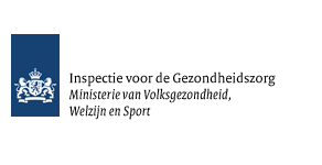 Logo of the Health Care Inspectorate, part of the Ministry of Health, Welfare and Sport (Netherlands). It incorporates the Rijksoverheid logo.